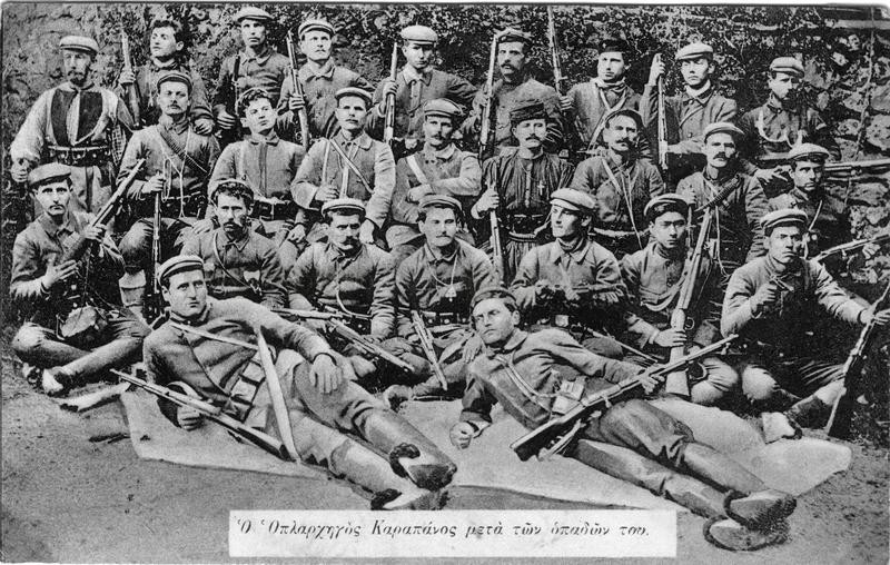 Hristos Karapanos cheta